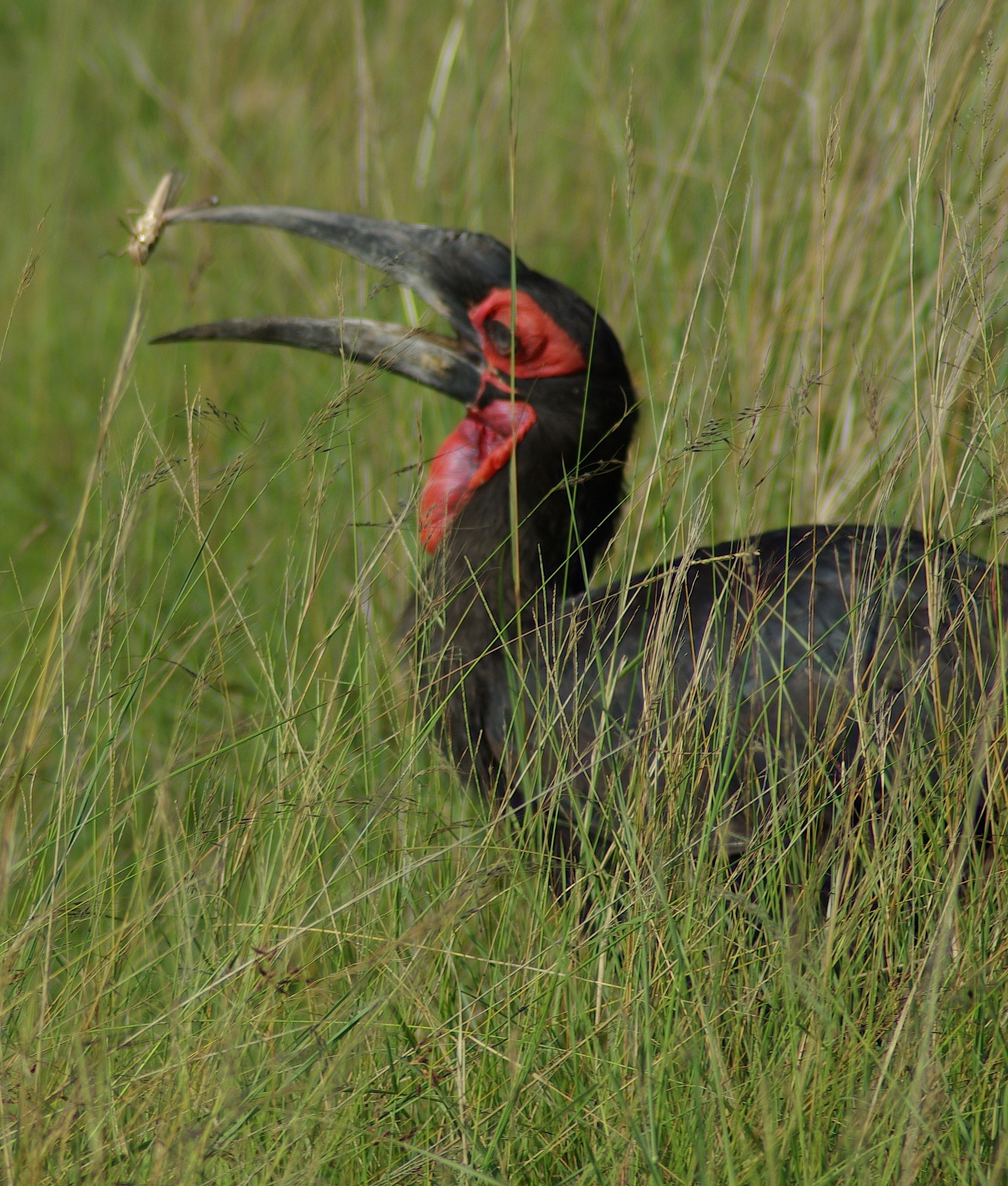 Adult female Southern Ground Hornbill, Bucorvus leadbeateri, in Masai Mara National Park, Kenya, tossing a grasshopper back to swallow it. The time stamp is 10 hours too early.